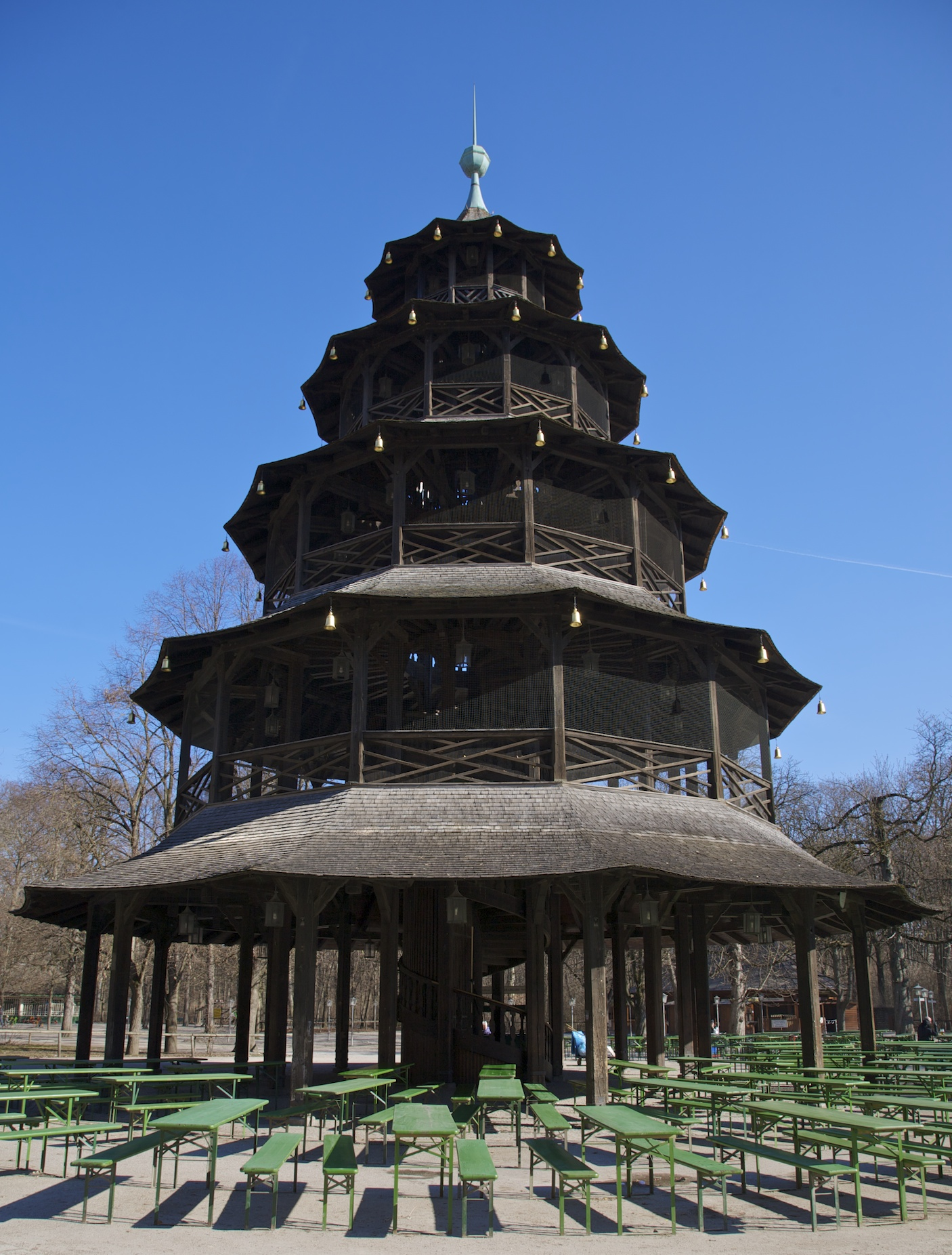 The Chinese Tower in the English Garden - Munich